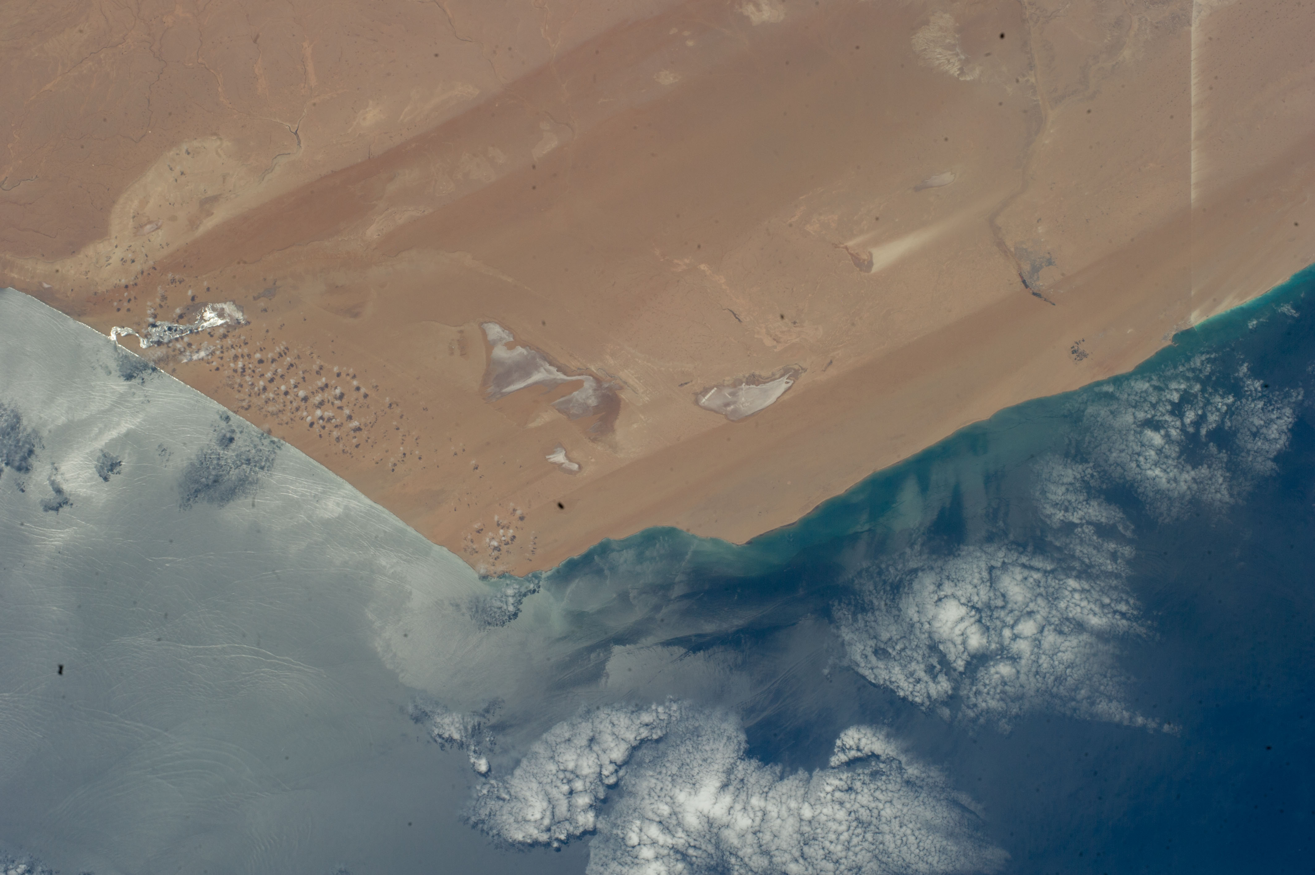 Expedition 40 Commander Steve Swanson of NASA photographed this image from an Earth-facing window on the Earth-orbiting International Space Station featuring the Western Sahara Desert where it meets the Atlantic Ocean on May 23, 2014. The city of Tarfaya, Morocco, located at 22.45 degrees north latitude, and 13.13 degrees, east longitude, is visible. Obvious streaks in the sand were created by northerly winds.